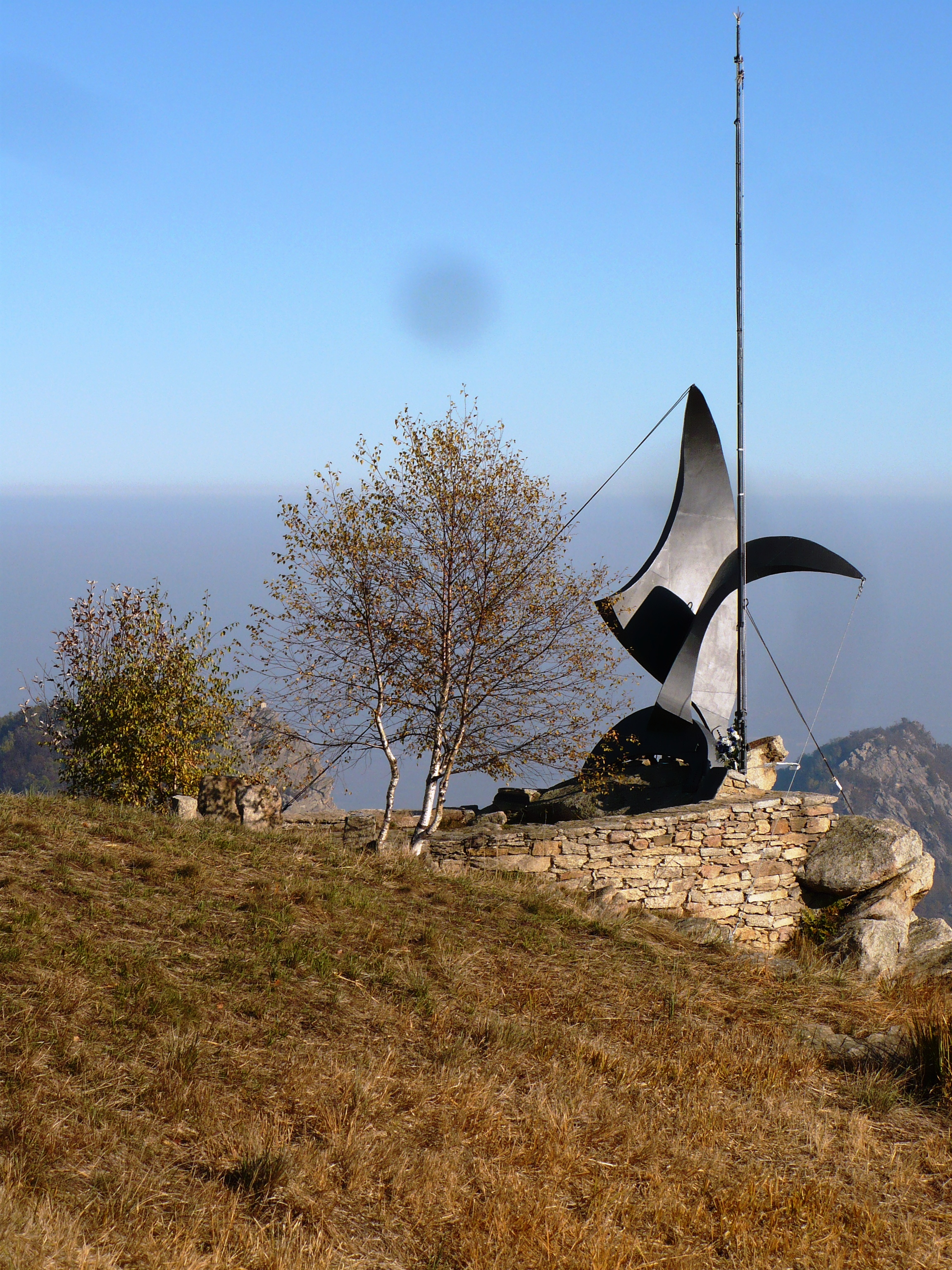 Mont Freidour - Cottian Alps - Province of Turin - Italy